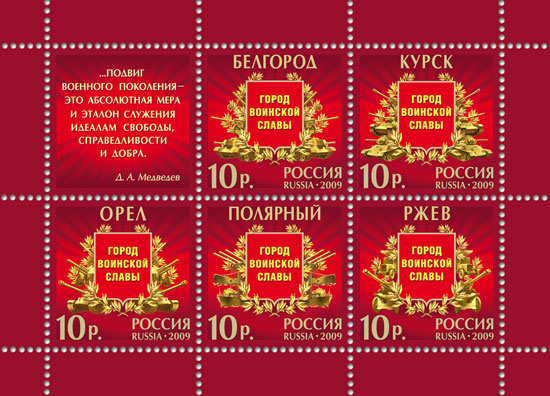 Stamps of Russia, Cities of War Glory, with a label containing the citation of Dmitry Medvedev, President of Russia, August 24, 2009.